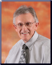 Headshot of D.Broadus (Don) Keele, Jr.